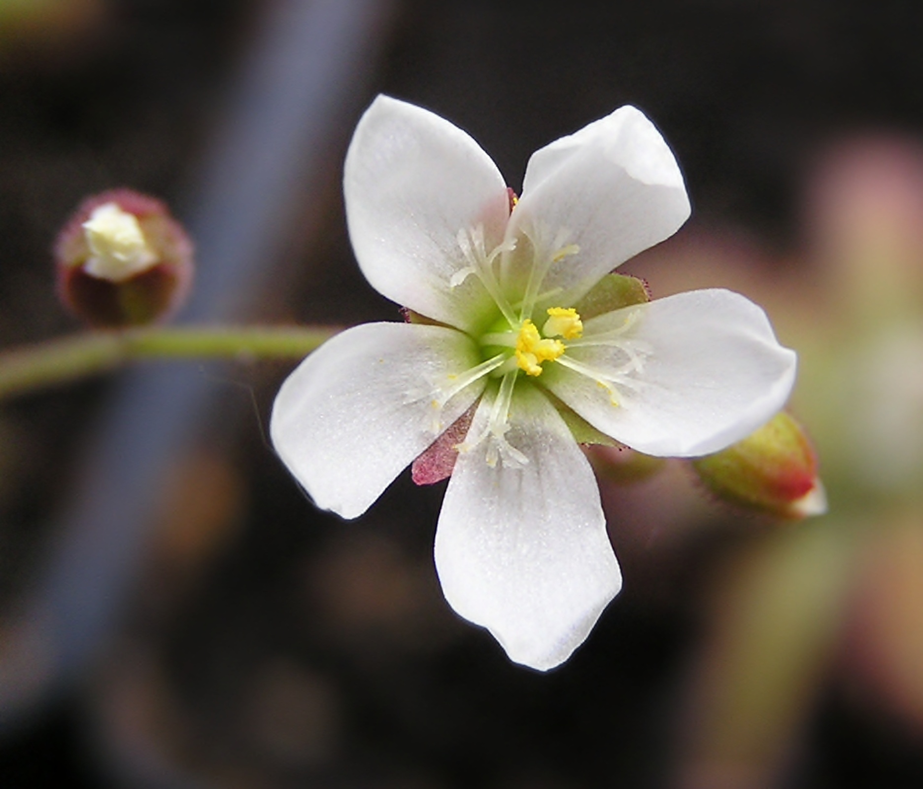 Drosera neocaledonica